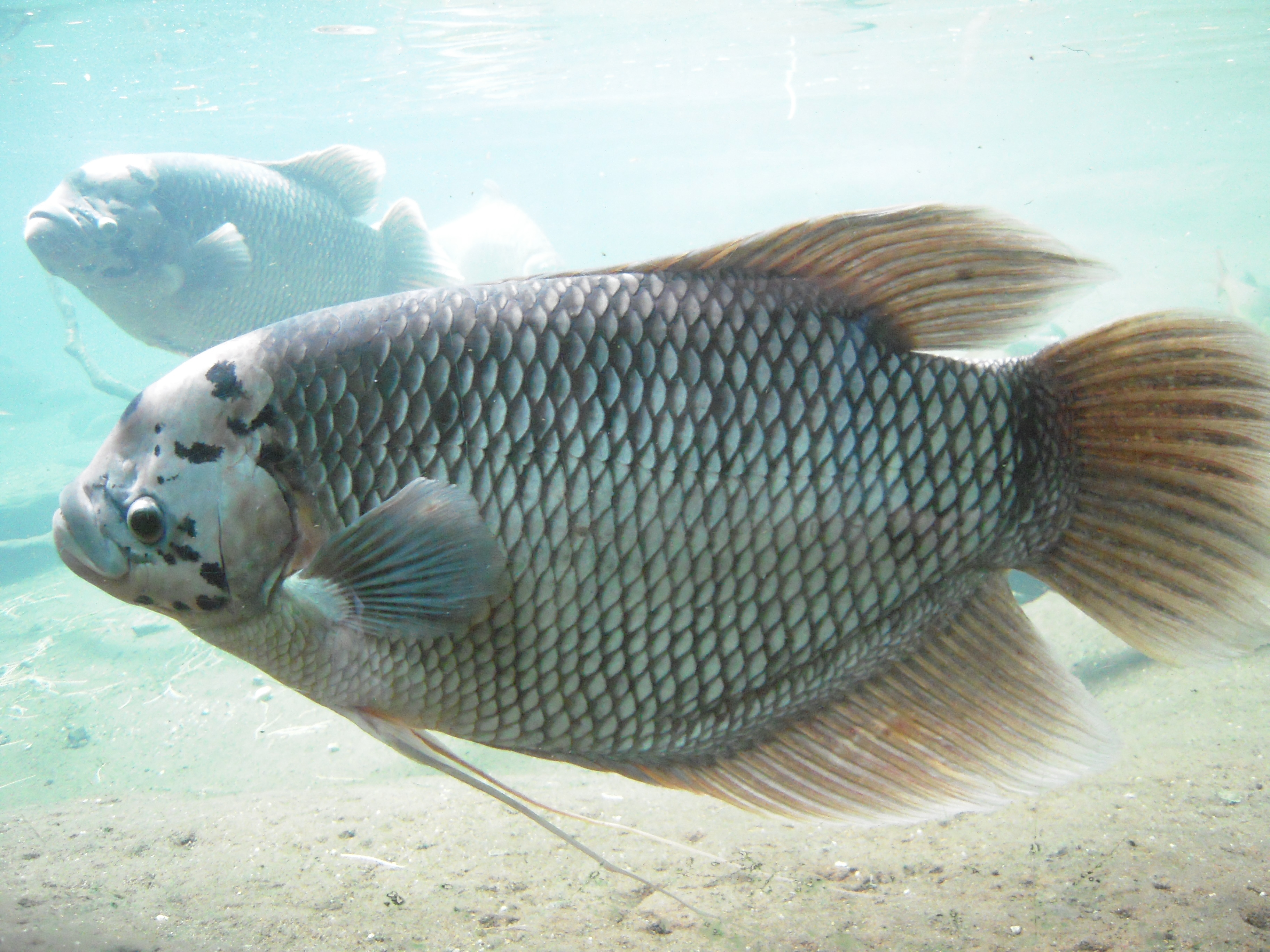 Osphronemus goramy in Bronx Zoo